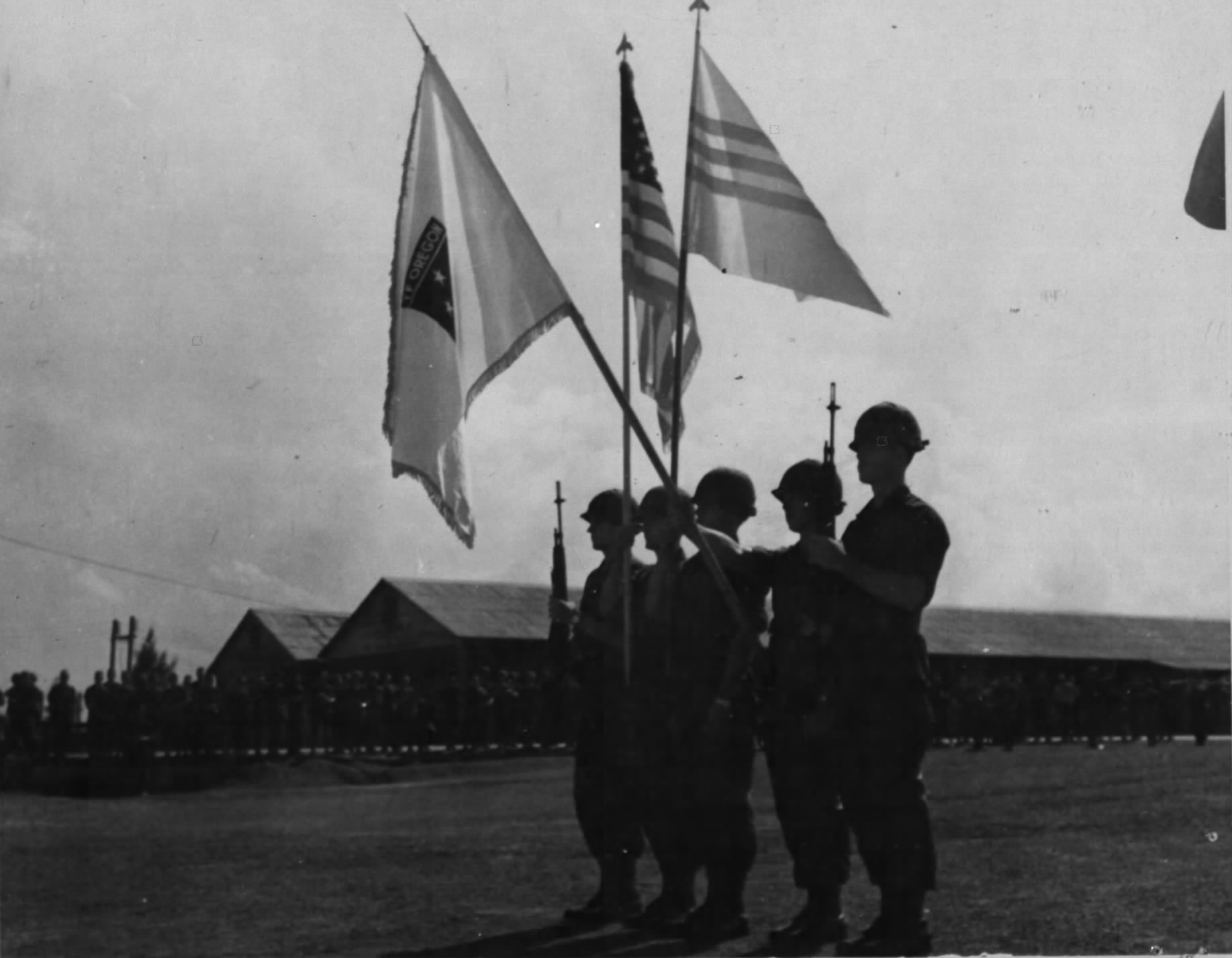 Chu Lai The old Americal Division colors are dipped in salute as the national anthem is played at the division colors ceremony.